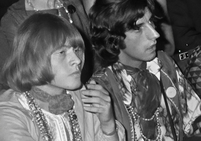 Brian Jones & Michael Cooper at Concertgebouw in Amsterdam, September 1, 1967. This is a detail and retouched version of the original image from the Nationaal Archief. It was taken during a meeting with Maharish Makesh Yogi.